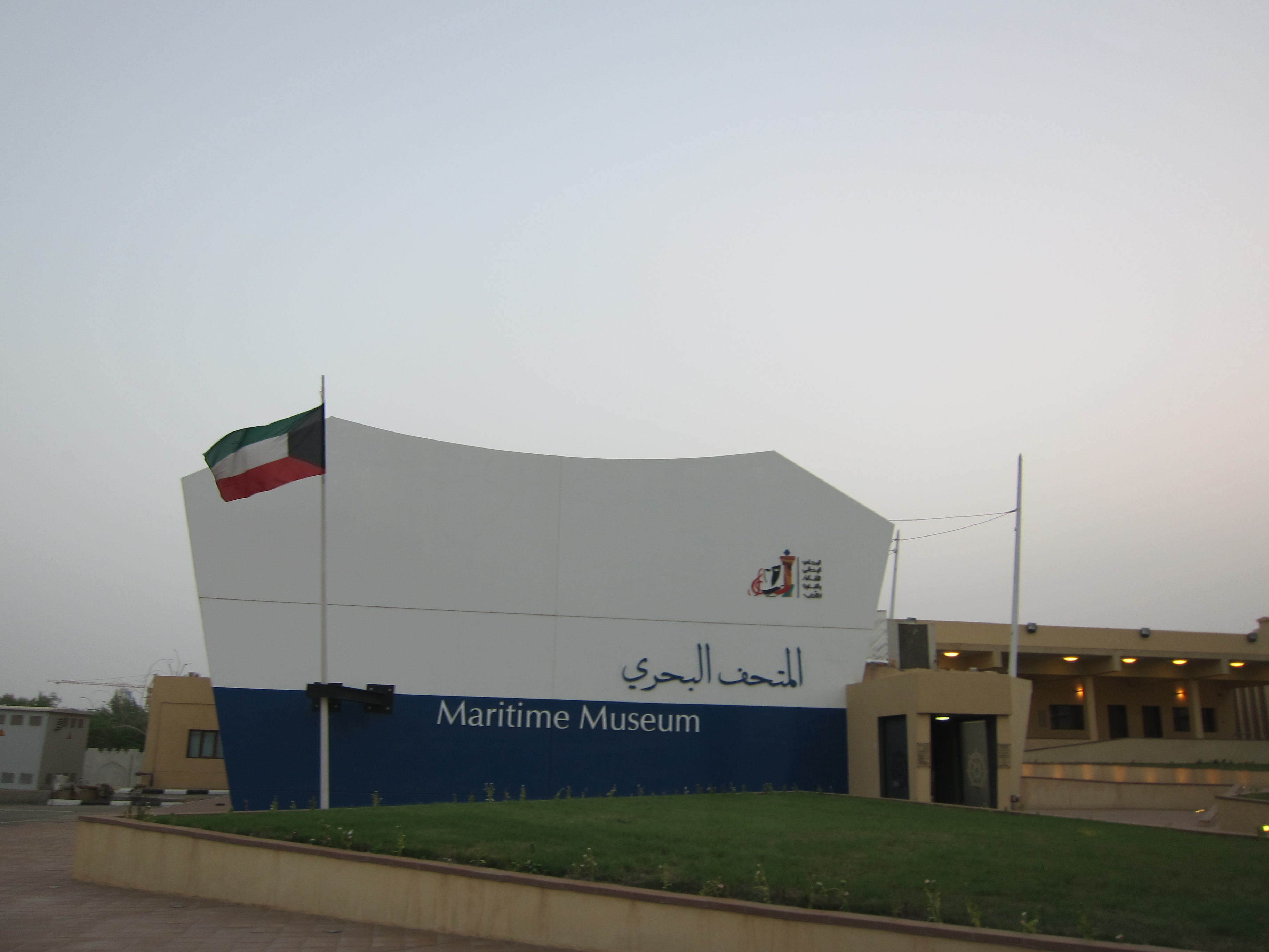 a Museum in kuwait city, next to the sea deadicate to the marinetime in kuwait history